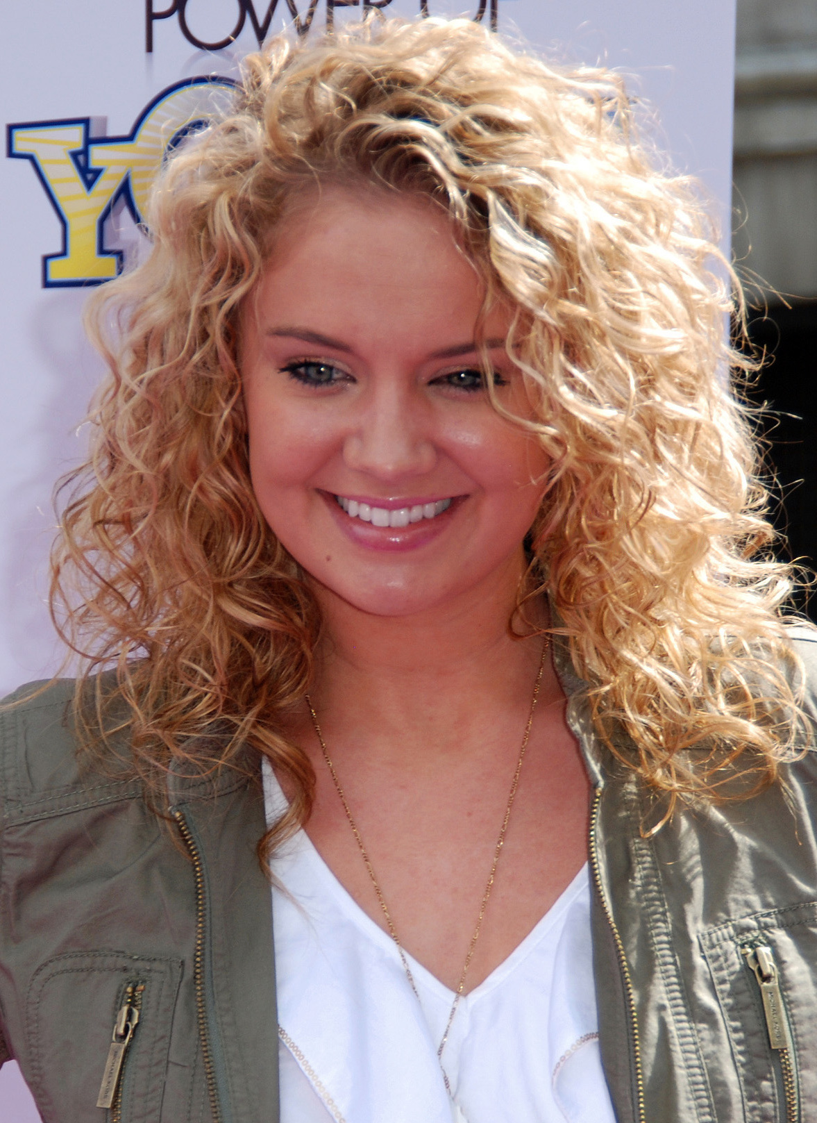 Actress Tiffany Thornton attends the Variety's Power of Youth Event at Paramount Studios in Hollywood, CA, Oct 24, 2010